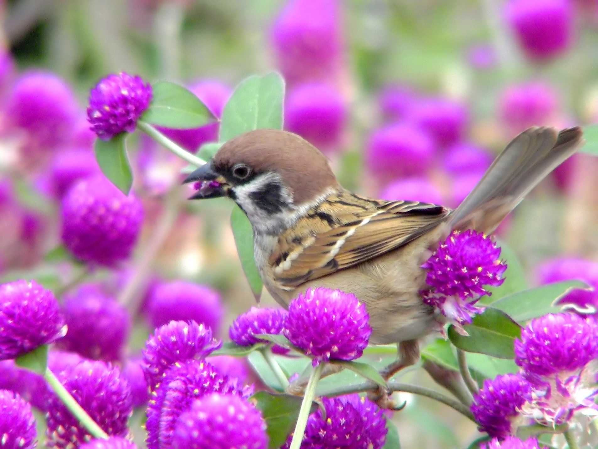 A Eurasian Tree Sparrow at Tsim Sha Tsui, Kowloon, Hong Kong